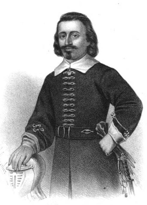 Massachusetts colonial governor and English Civil War officer John Leverett